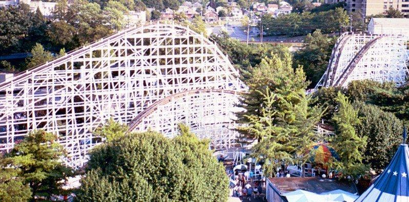 The Comet roller coaster at Hersheypark. Photo by Joel A. Rogers of . See the original (before someone illegially deleted the copyright off of it) at - Hersheypark Comet[1].